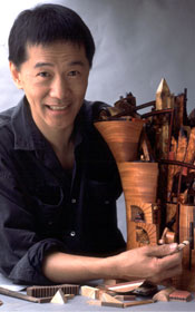 Image of Po Shun Leong, licensed by the artist